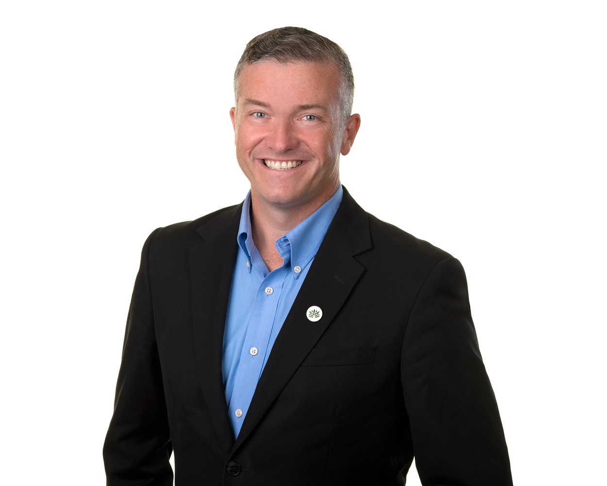 Official photo